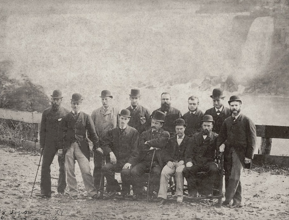 Image of the 1878 Australian cricket team from the State Library of NSW (New South Wales), accessed at: Public Domain. PD-Australia